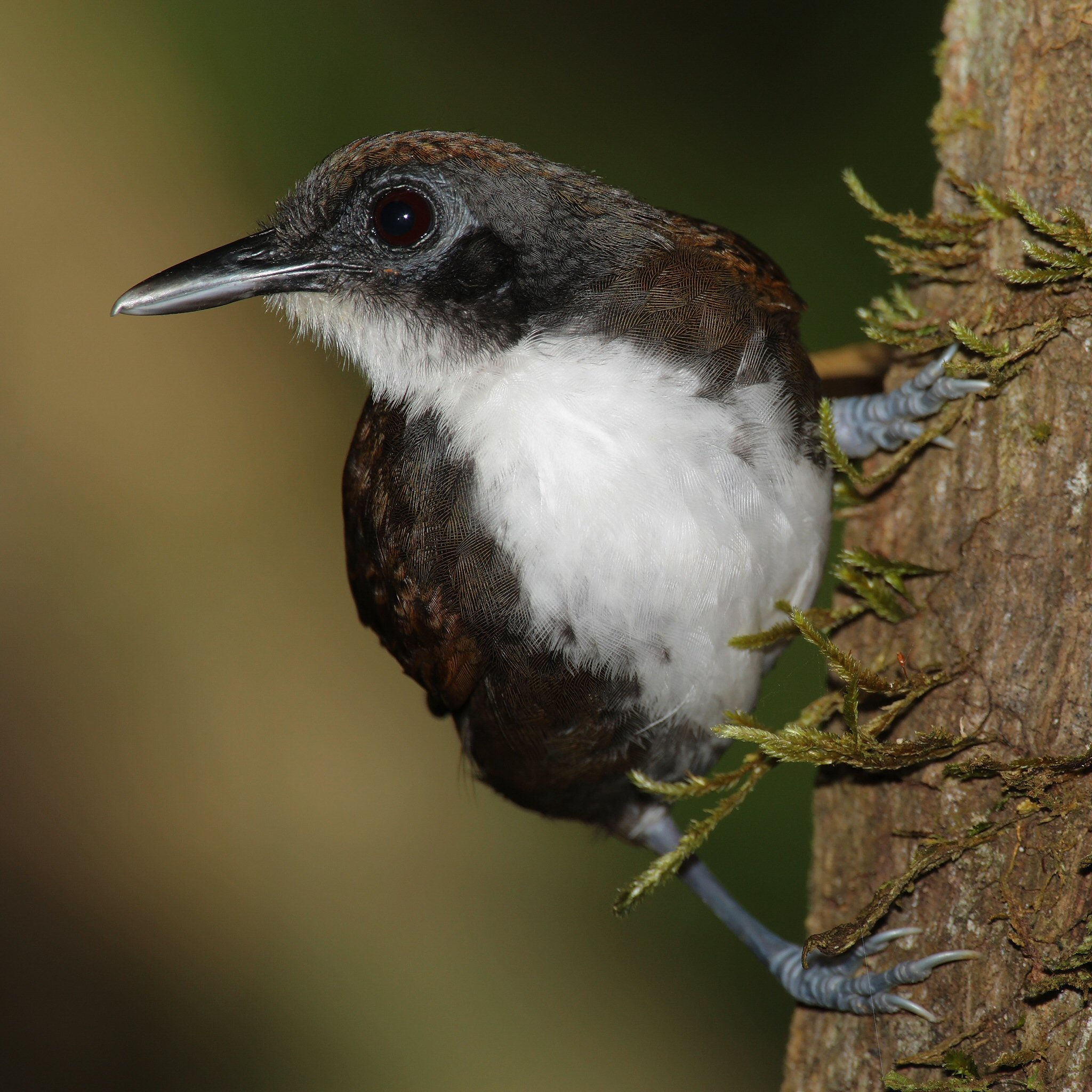 Bicolored Antbird -- Parque Nacional Darién, Panama -- 2008 February